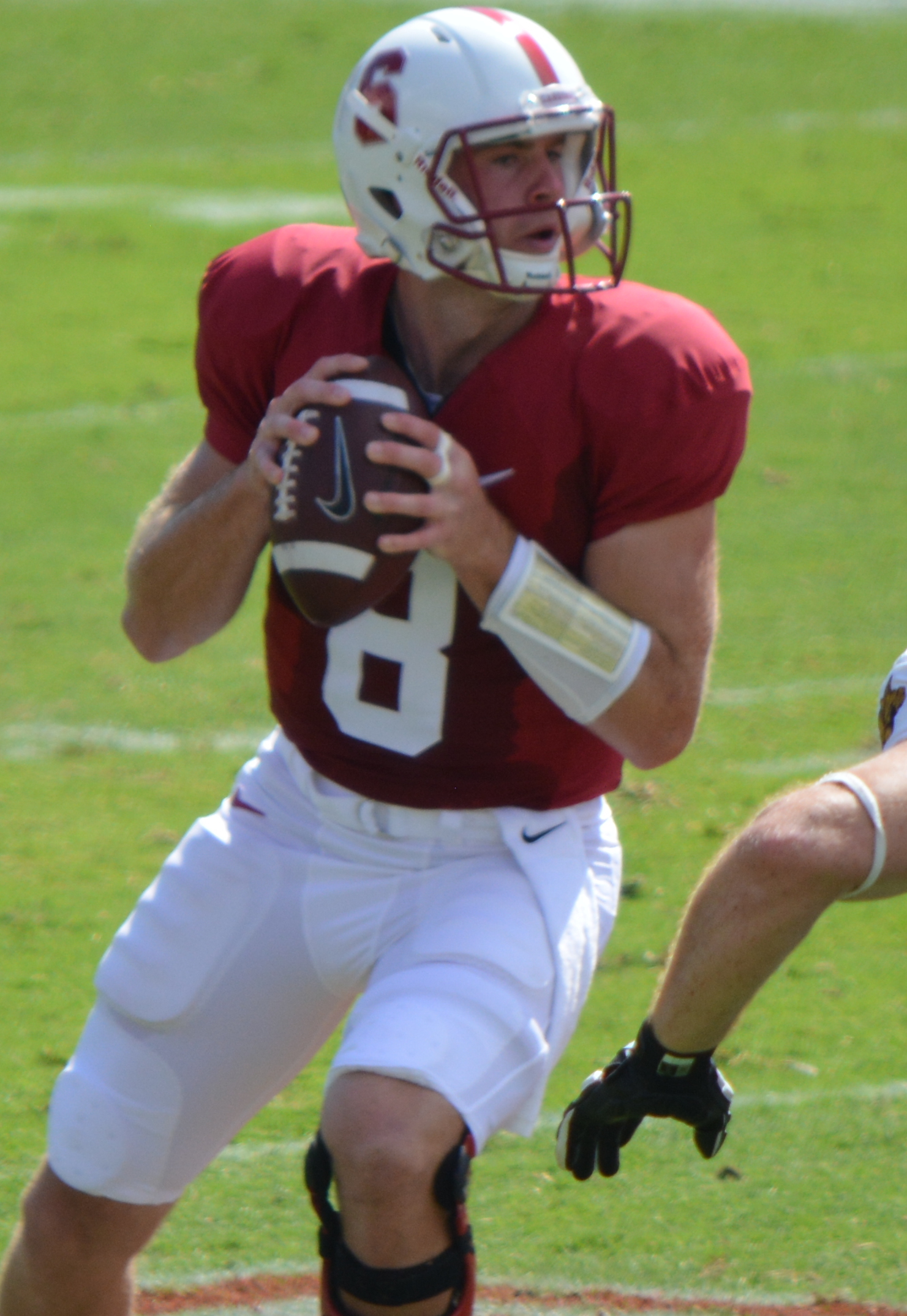 Stanford 35 Army 0